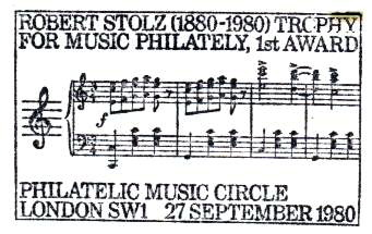 Special one-day hand cancellation of the Philatelic Music Circle